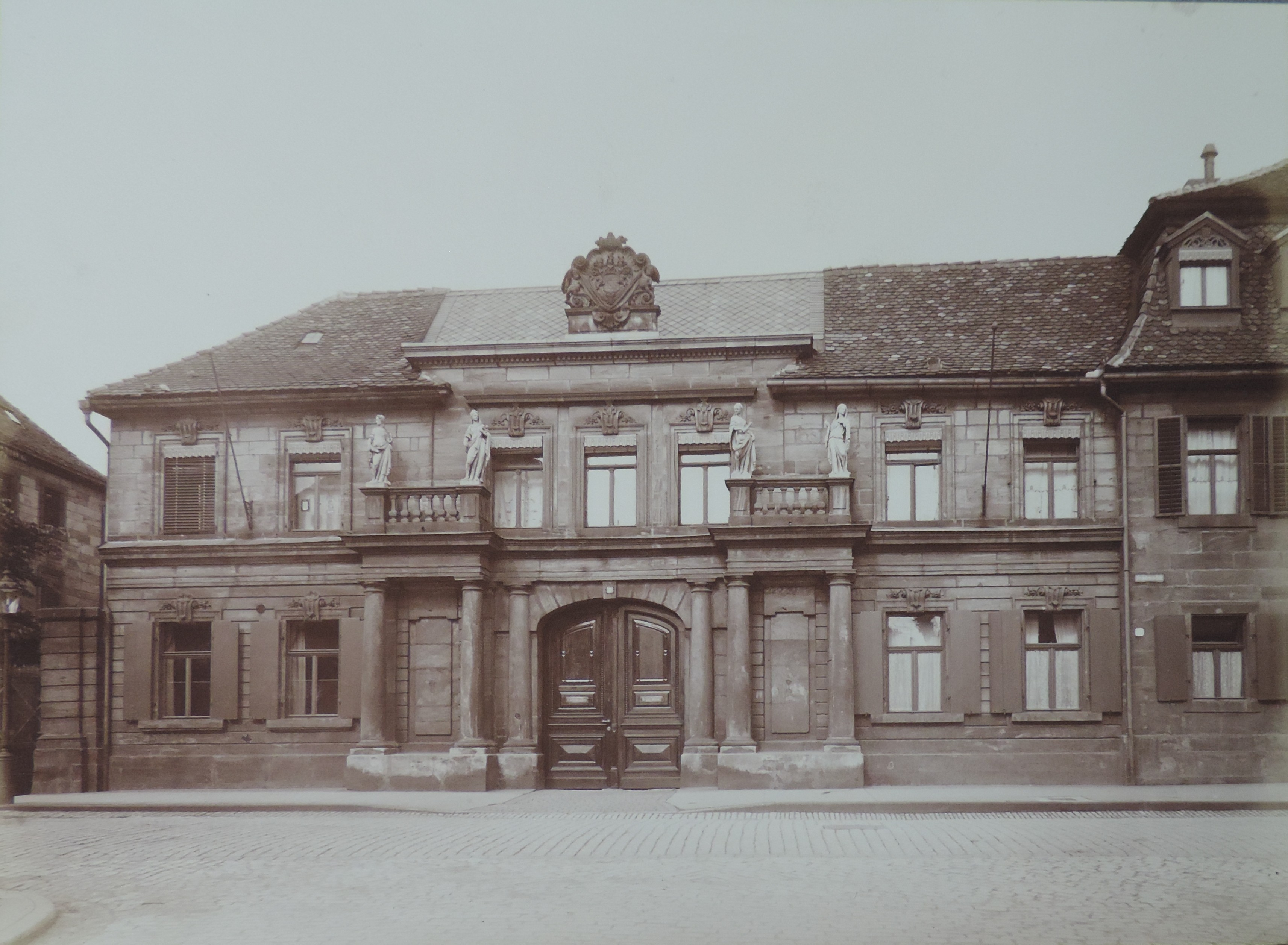 Views and photos of Bayreuth, Germany, gifted to Ferdinand I of Bulgaria to commemorate his 25-year rule. Former minister's house from 1749.